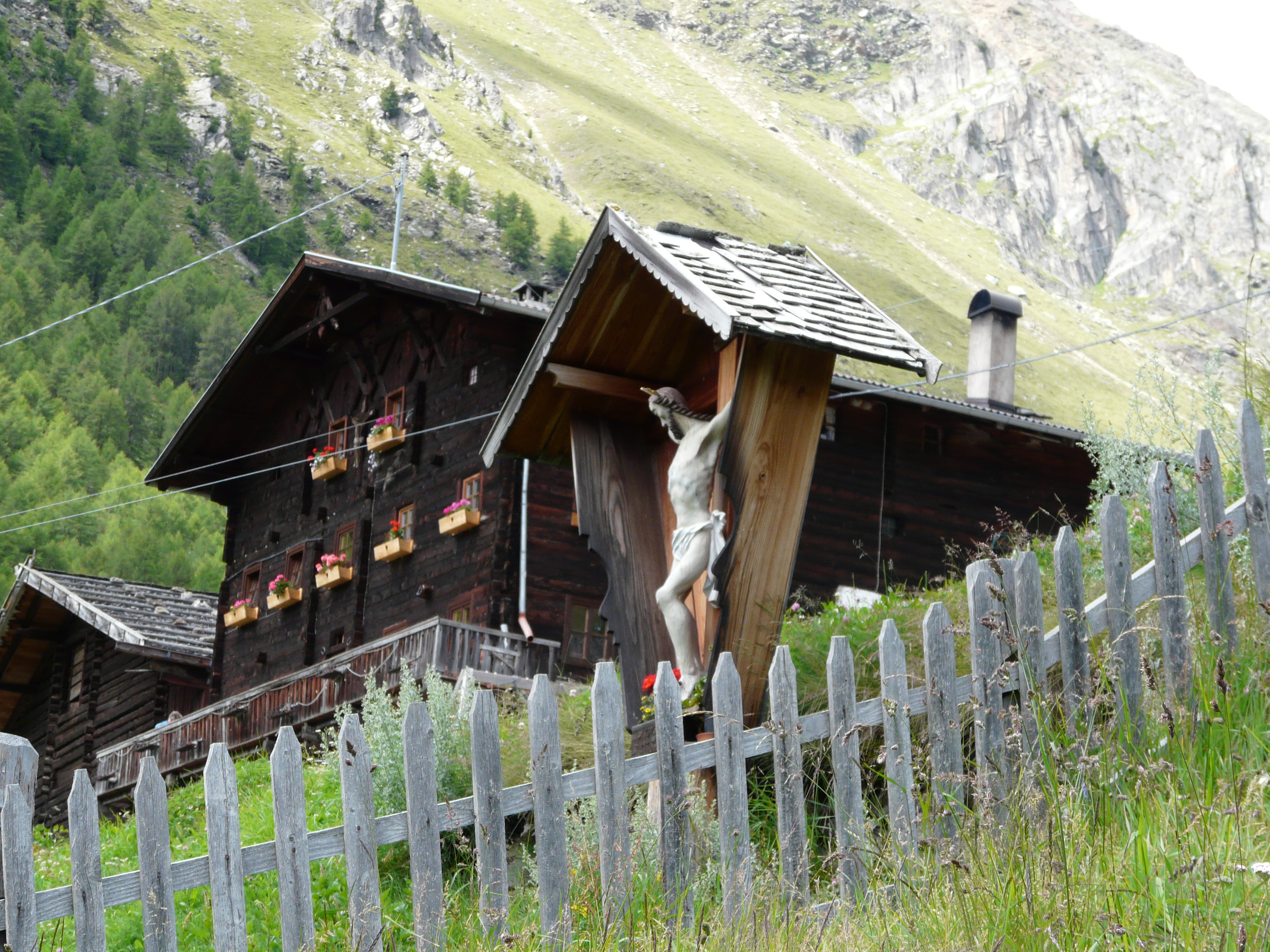 Finail farm house, Schnals